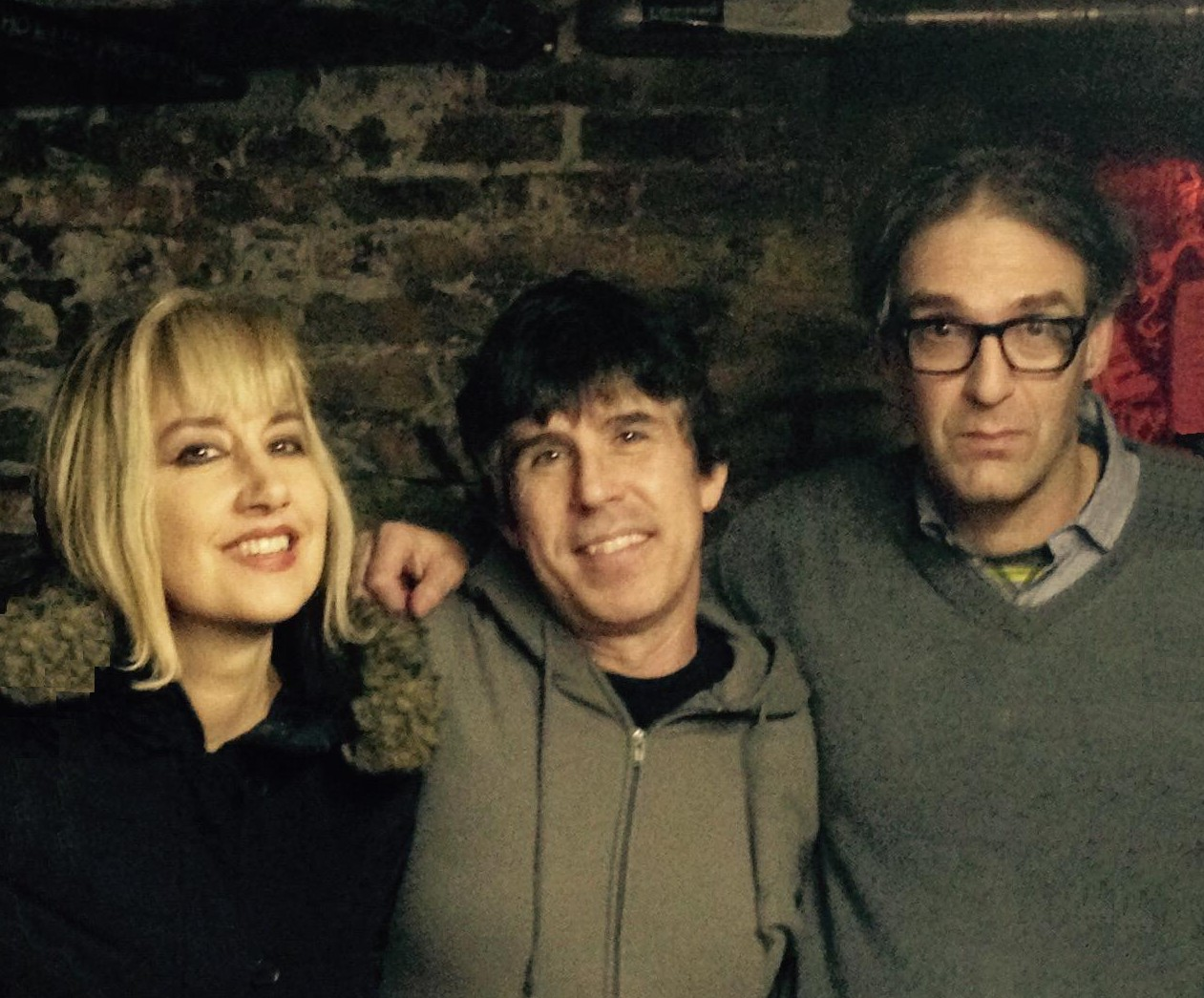 The Muffs, backstage after their concert at Reggie's Rock Club in Chicago, 12/31/2014